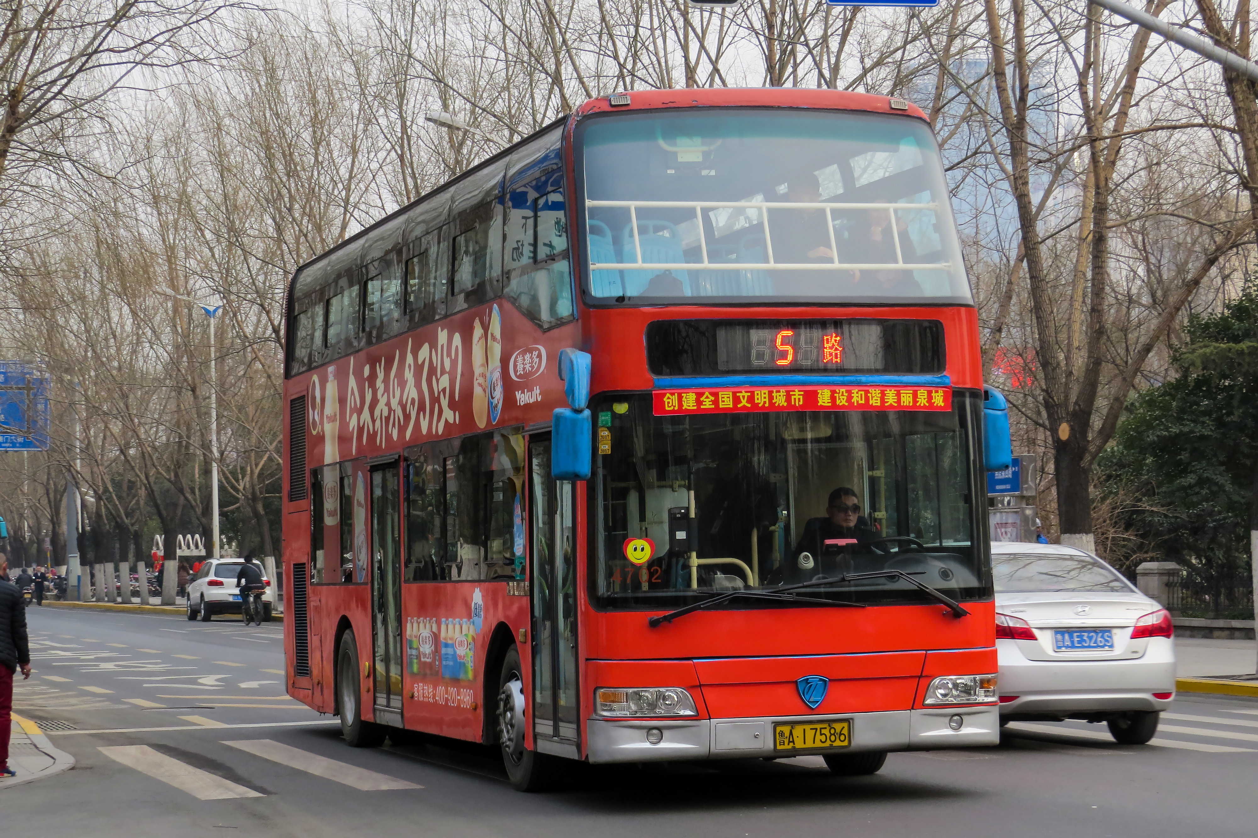 Taken near Quancheng Square.